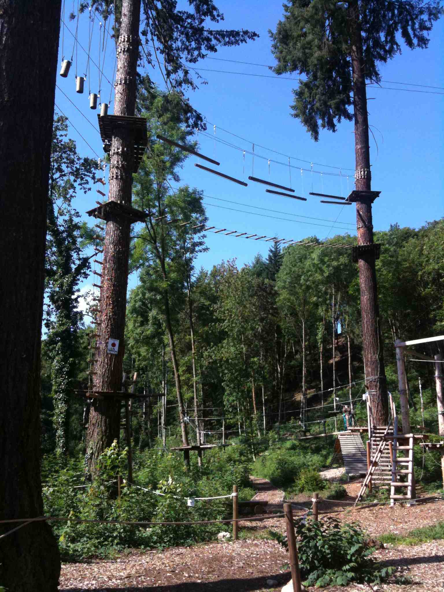 Rheinfall Ropes Course_1